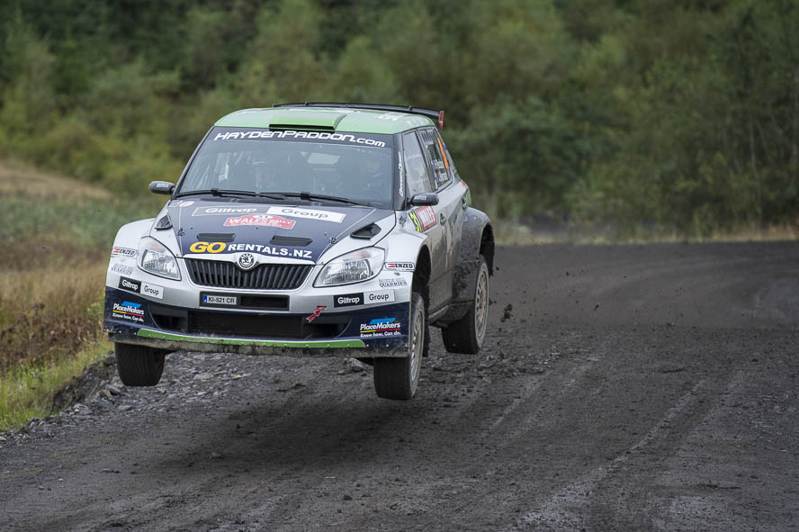 Wales Rally Great Britain 2012 Hayden Paddon,John Kennard,Likes Land Rover at Walters Arena 1,Motorsport,Rally,Rallye,SS16,Skoda Fabia S2000,WP16,WRC,Wales Rally GB